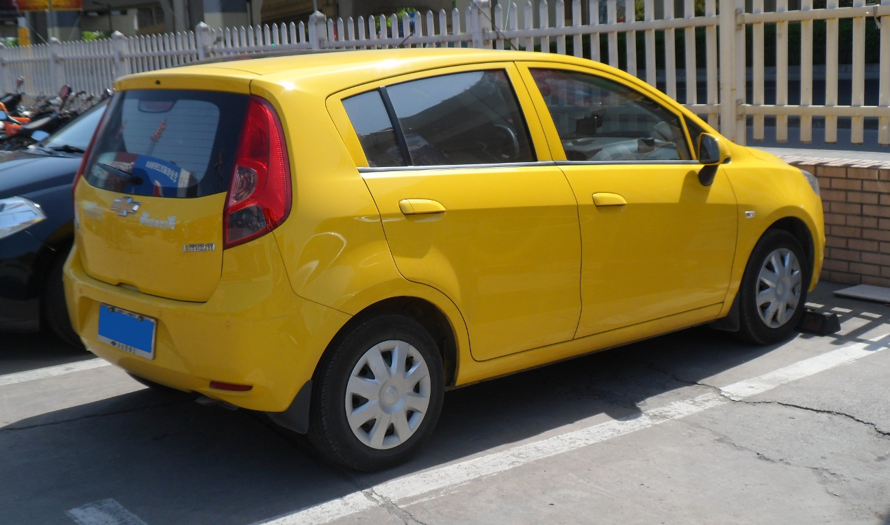 Chevrolet Sail hatch photographed in Shanghai, China.